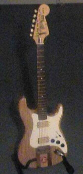 The Orfeus guitar.